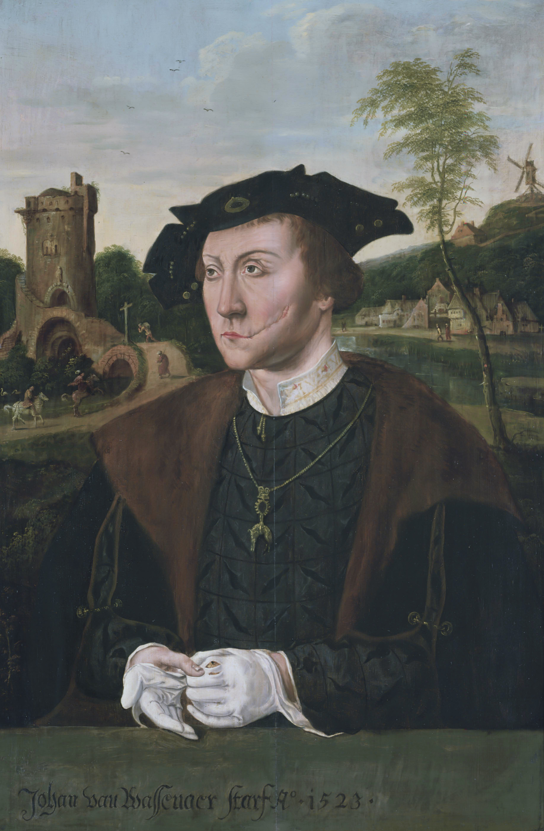 Jan II van Wassenaer, viscount of Leiden oil on panel 76 x 53 cm first half 16th century inscribed b.: Johan van Wassenaer starf Ao *1523*